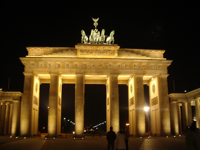 Brandenburger Tor in Berlin at night, first uploaded on 20. August 2004